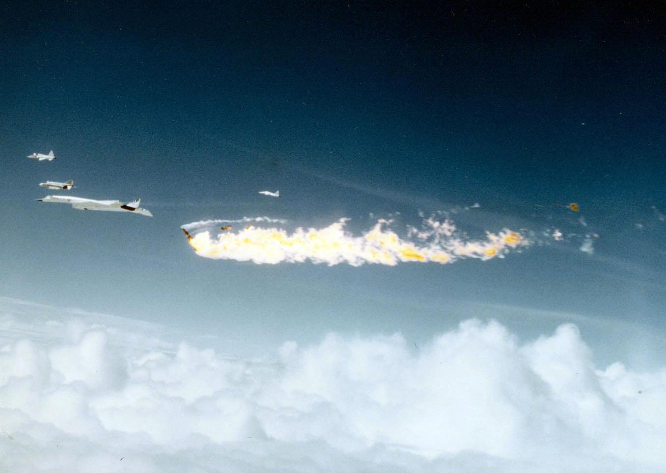 The North American XB-70A Valkyrie (s/n 62-0207) after the collision, 8 June 1966. Other aircraft are: Northrop T-38A-15-NO (s/n 59-1601), McDonnell F-4B-15-MC (BuNo 150993), Lockheed F-104A-20-LO (aka F-104N) (s/n 56-813, exploding), and Northrop YF-5A-NO (s/n 59-4989). The XB-70 can be seen at the far left of the image, missing one of its vertical stabilisers, while the large fireball is the F-104 Starfighter it collided with.